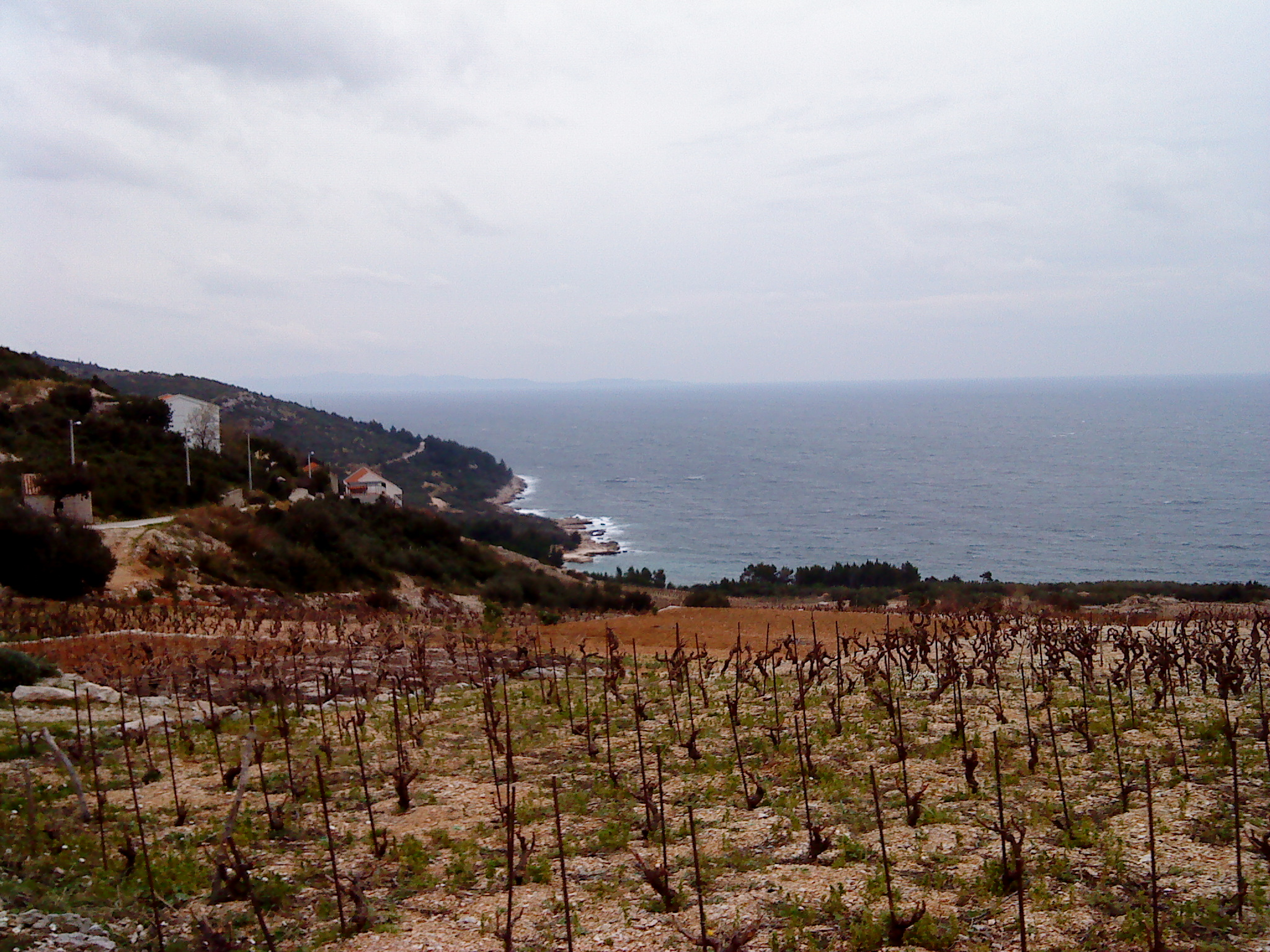 Wineyard in Postup